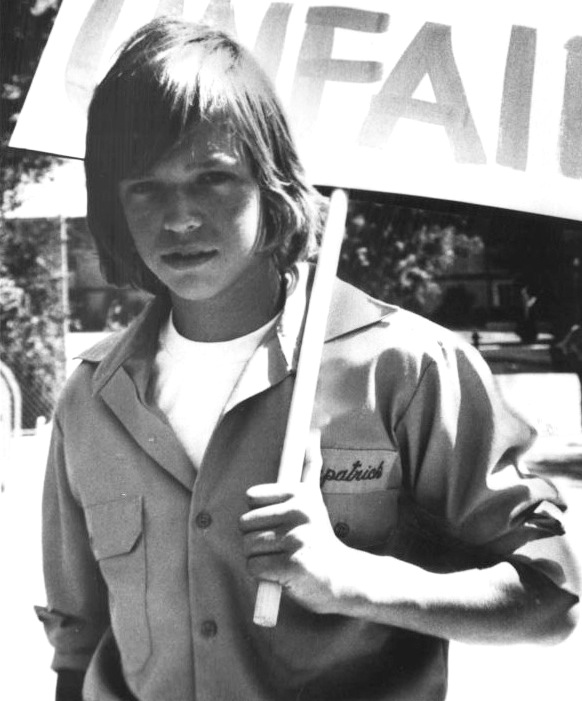 Jimmy McNichol in a still for The Fitzpatricks